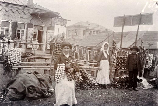 Photograph of the marketplace in Pyetrykaw, Belarus in 1912. Taken on an ethnological-photographic tour organized by the Imperial Russian Geographical Society (Імператарскае Расійскае геа­графічнае таварыства). Published in the "Memoirs of Northwest Division of the Imperial Russian Geographical Society" report Serbava "Trip to Polesie summer 1912" (“Записках Северо-Западного отдела Императорского Русского географического общества” справаздачы Сербава “Поездка по Полесью летом 1912 года”) The tour was led by Ісак Сербаў Issac Serbs (1871-1943). Originals are stored at the Library at the University of Vilnius, Lithuania. Republished by the newspaper Gomelskaya Pravda on 22 June 2012, at